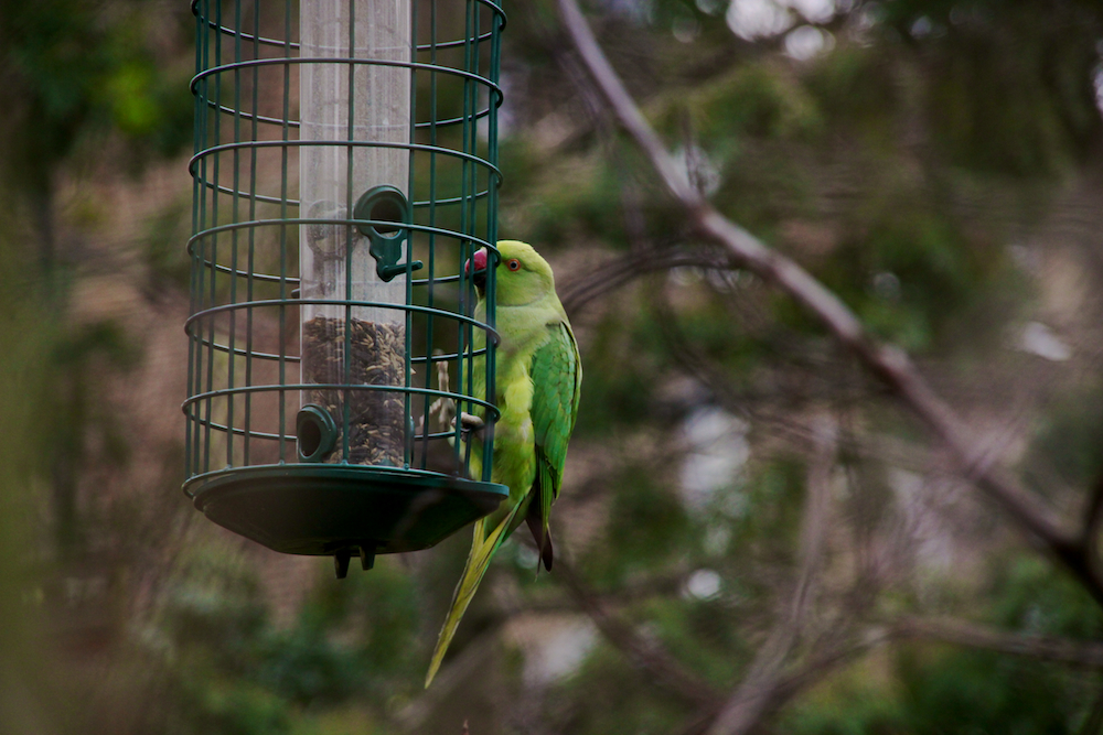 Feral Ring-necked Parakeet, Psittacula krameri on a bird feeder in Wimbledon, London, England